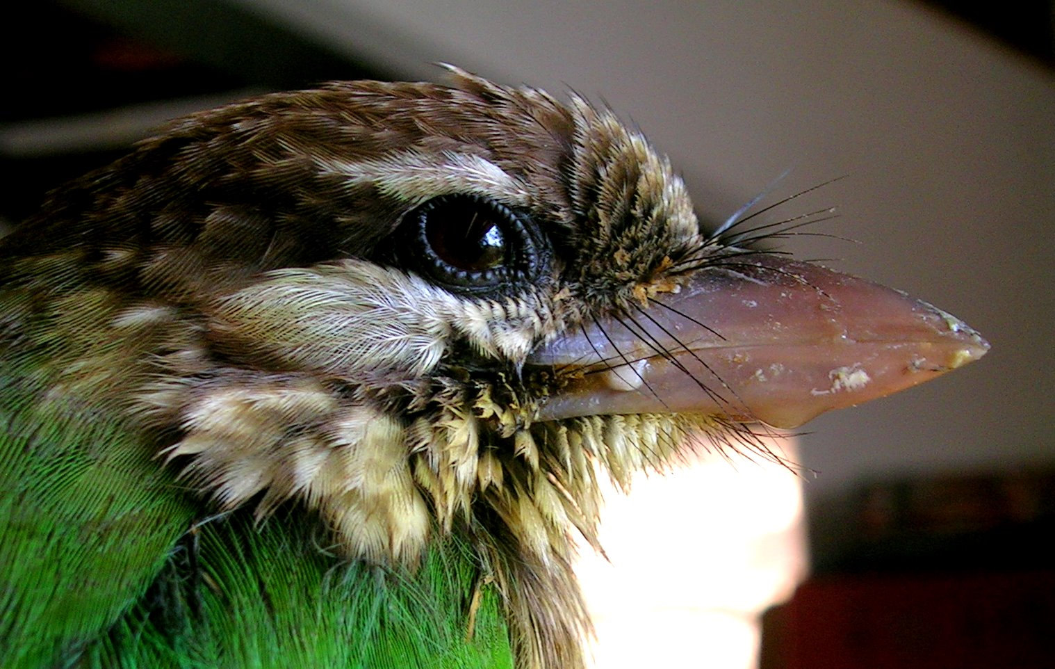 Rictal bristles of a Small Green Barbet (Megalaima viridis)